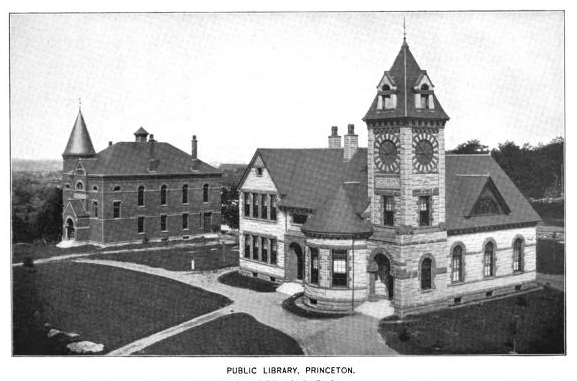 Public library, Massachusetts